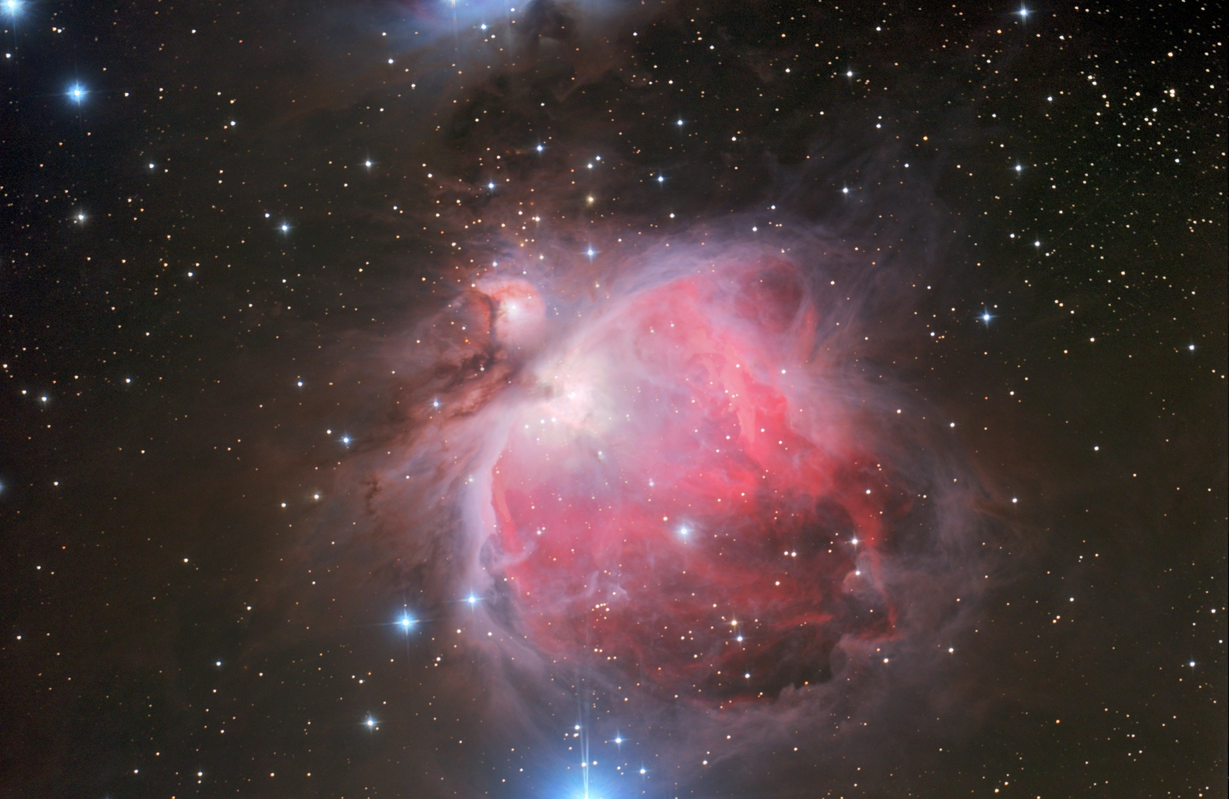 The Orion Nebula (also known as Messier 42, M42, or NGC 1976)